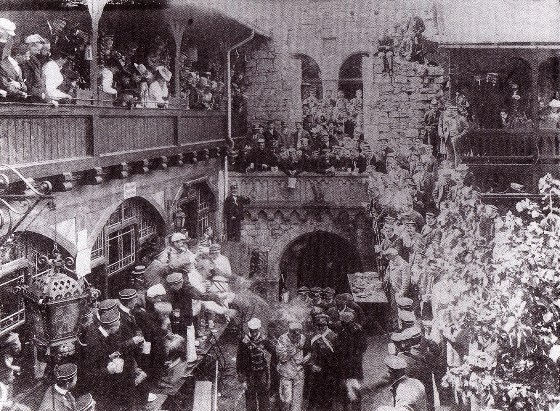 beer baptize of young corps students on the Rudelsburg castle